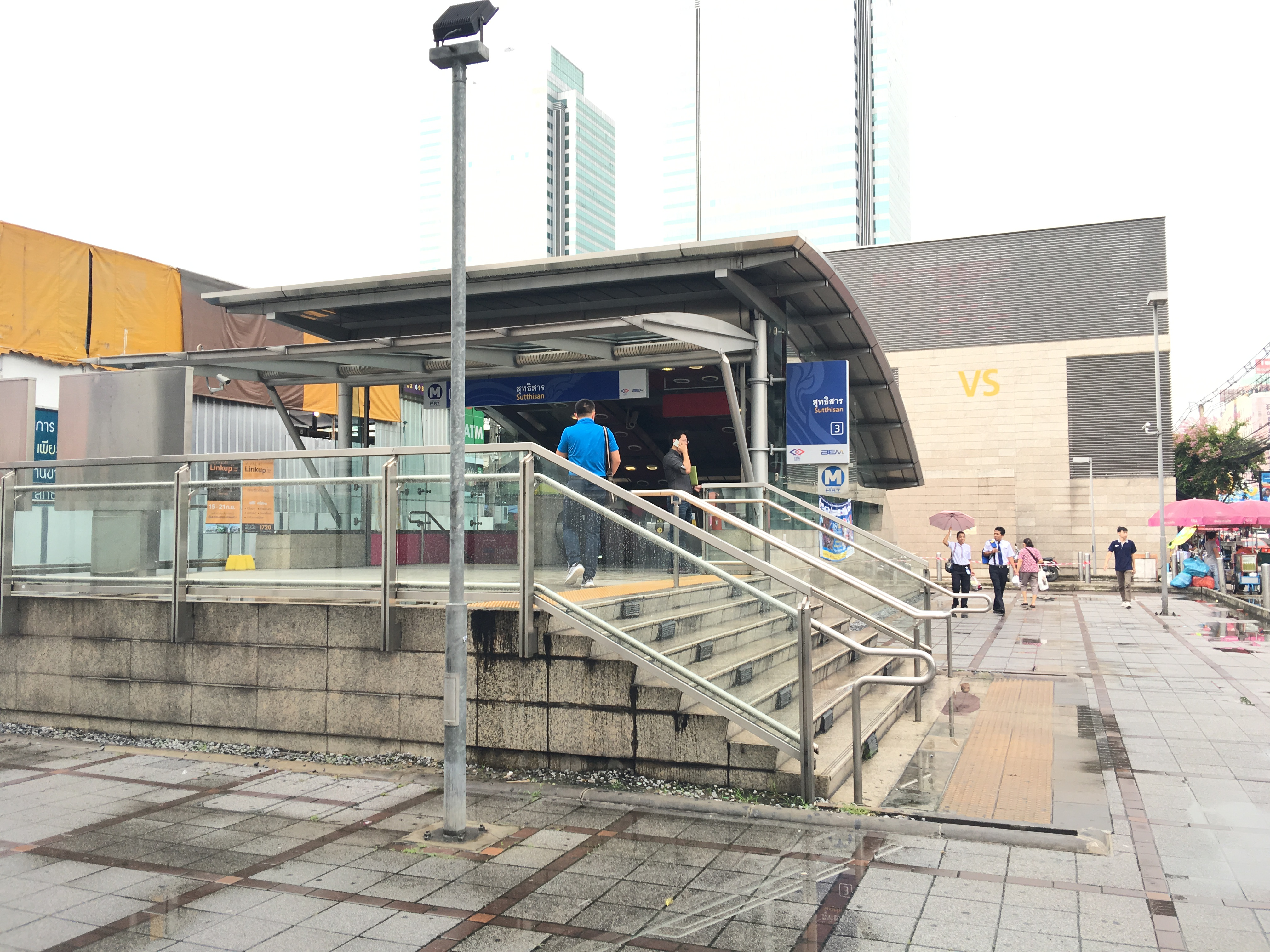 The entrance no.3 to Sutthisan Station